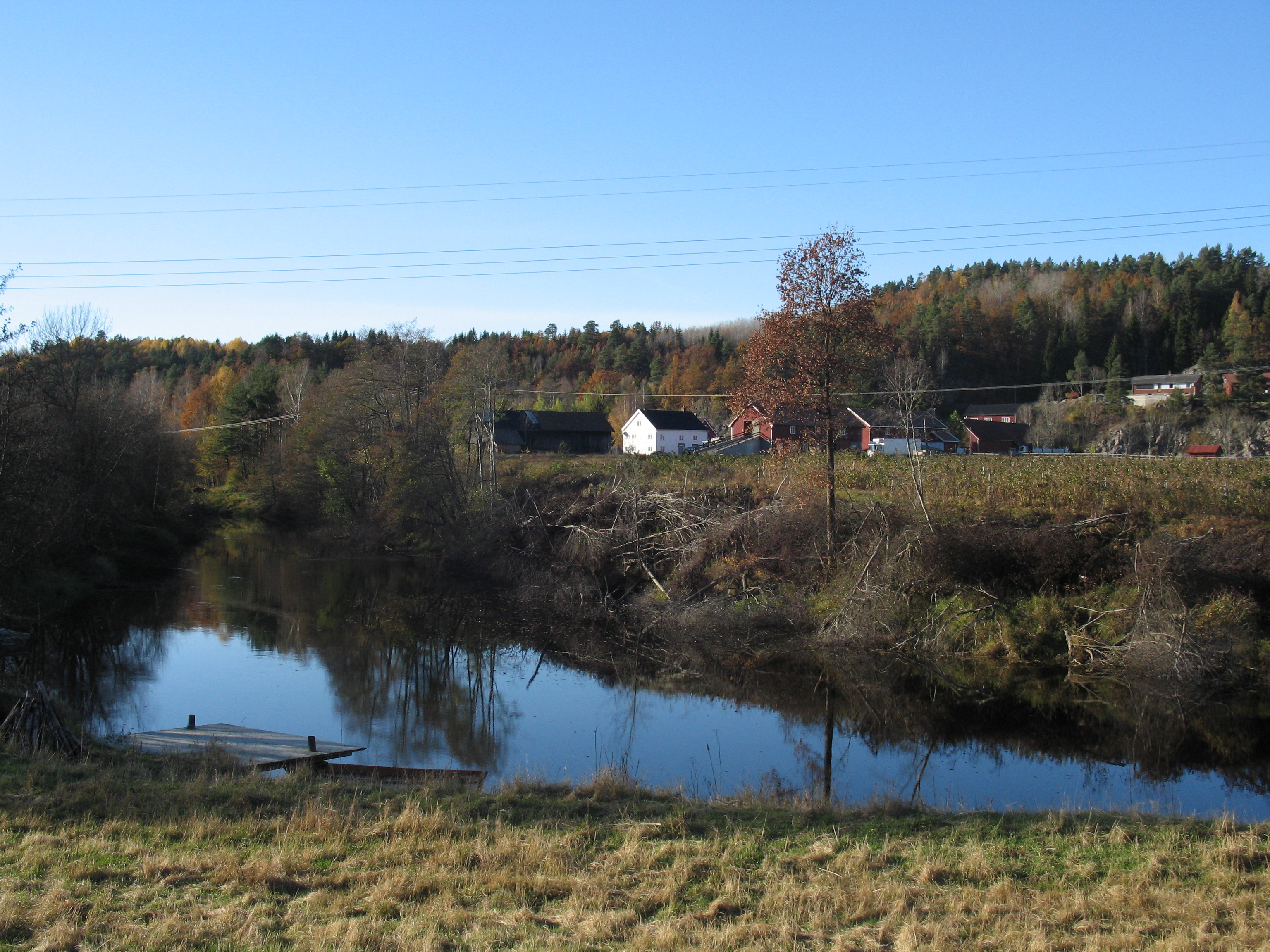 River of Storelva